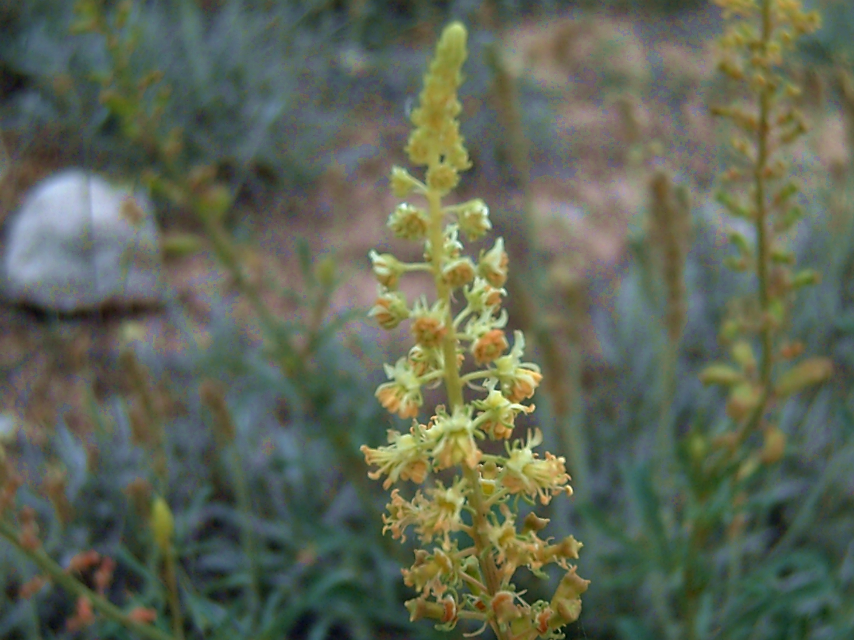 Reseda alba floral spike close up, La Mata, Torrevieja, Alicante, Spain